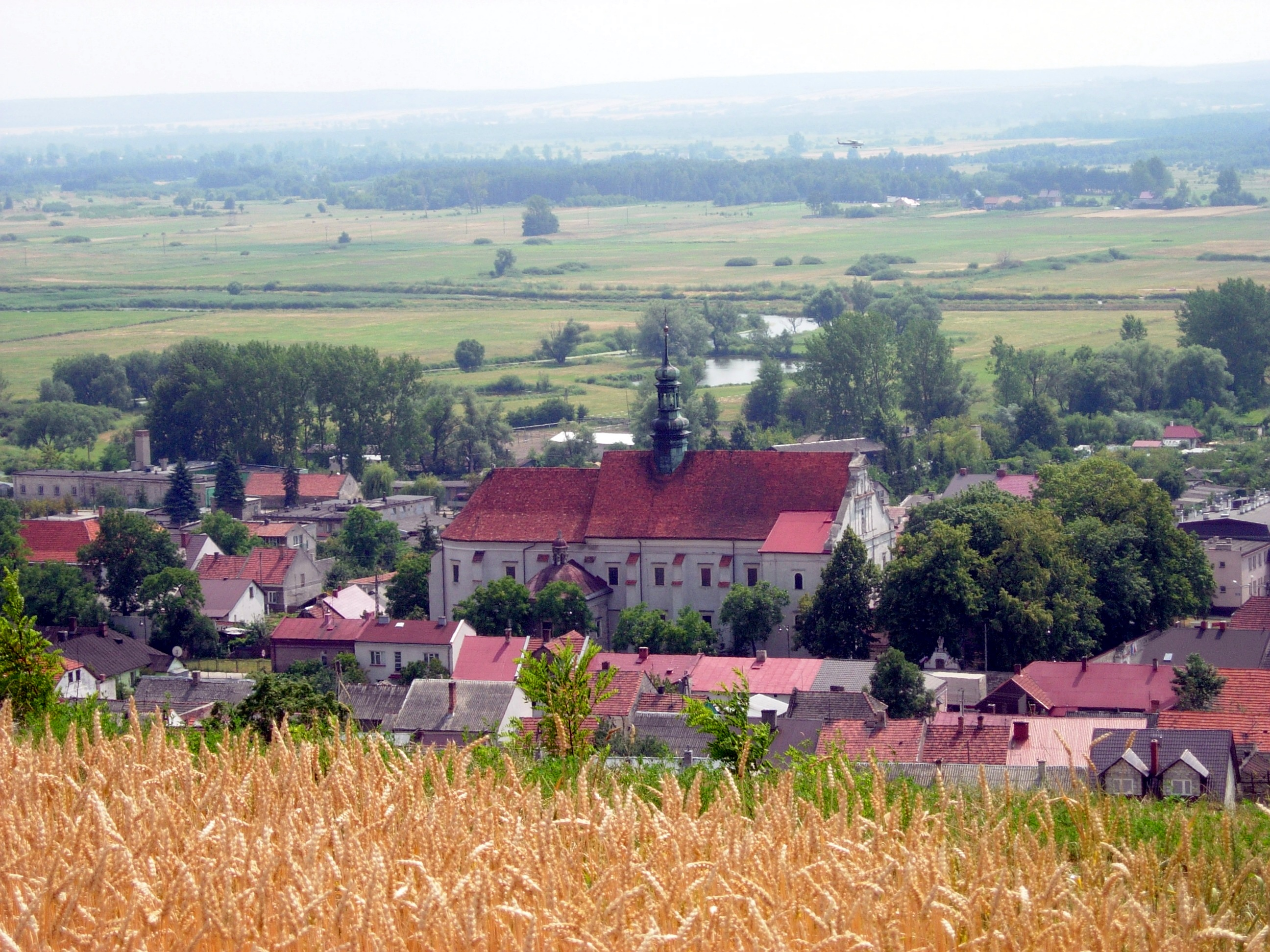 View from Mount St. Anne in Pińczów; Mirów quarter and the valley of Nida River